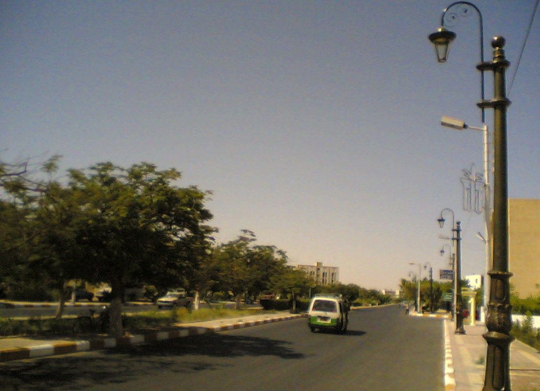 A view showing Gamal Abdel Nasser street at El-Kharga Oasis ( Al-Kharijah ) in New Valley Government in Egypt,one of the most common streets at their.